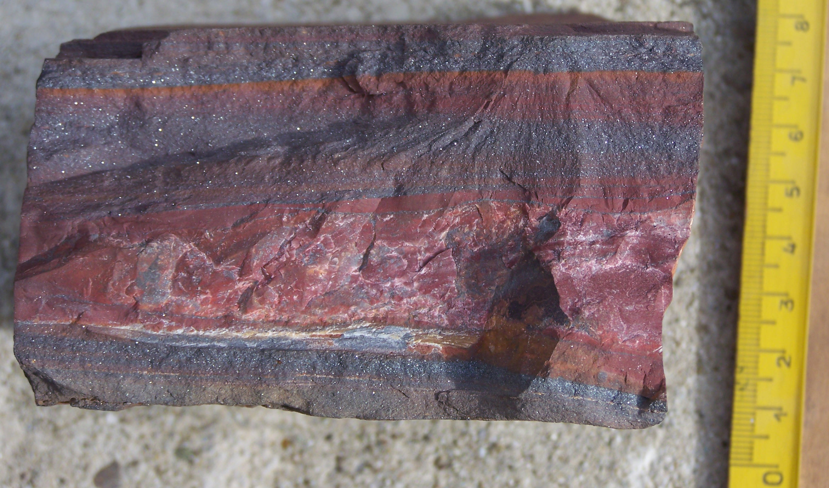 Rock sample from a banded iron formation (BIF). Moories Group, Barberton Greenstone Belt, South Africa. The group is dated at 3.15 Ga (billion years old). Scalebar is in cm. Sample courtesy: K. Lehmann and prof. J.D. Kramers